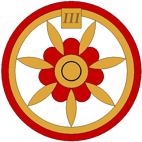 Shieldpattern of Legio Tertia Diocletiana Thebaeorum (also Legio III Diocletiana) in early 5th century. Source: Notitia Dignitatum Or. VIII.